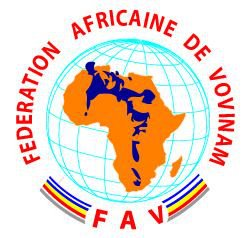 FAV logo